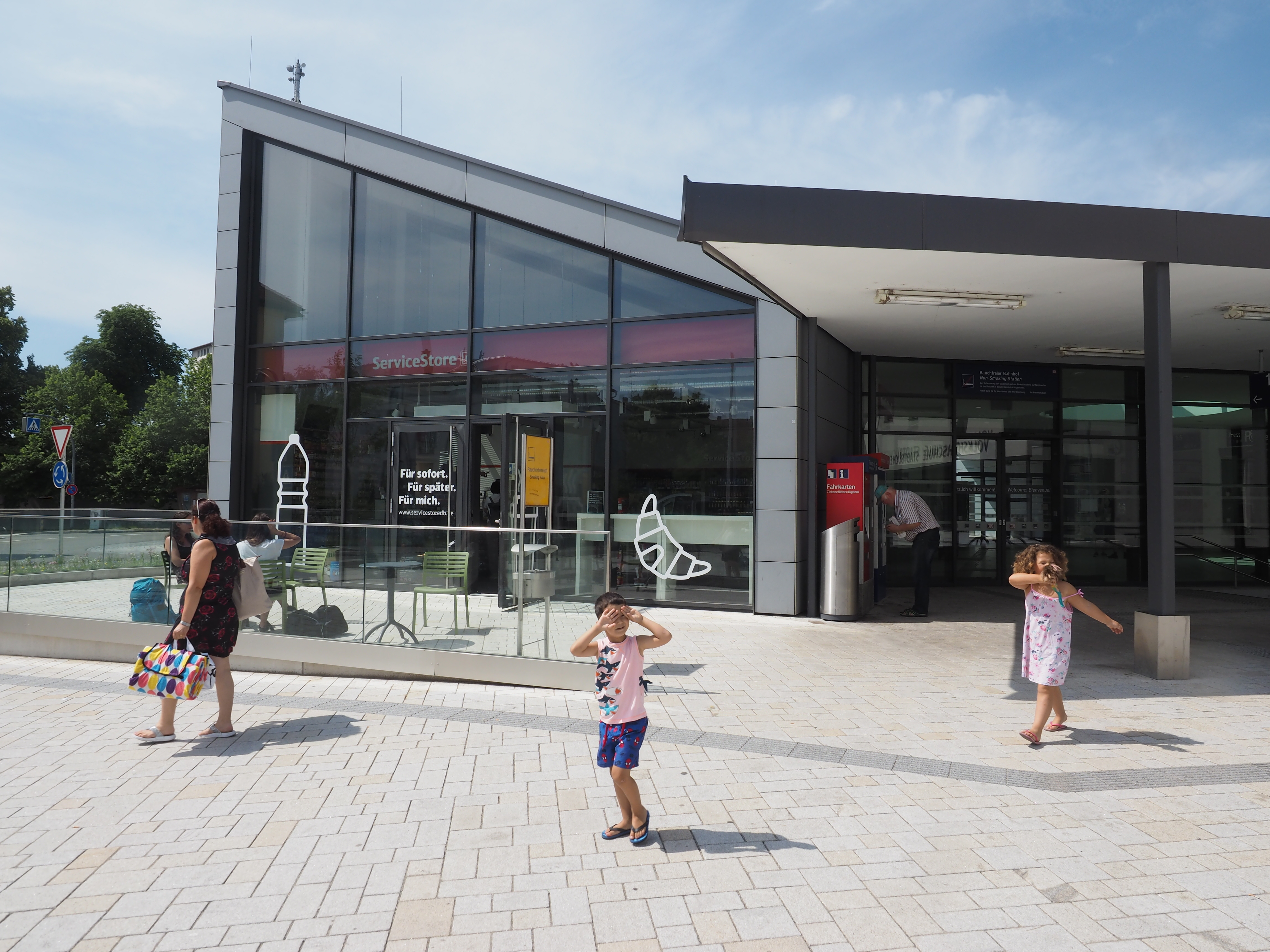 Central Buchloe, Bavaria, Germany in early July.